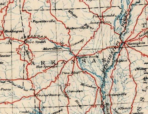 "Final" map of Arkansas' U.S. Numbered Highways in 1926.